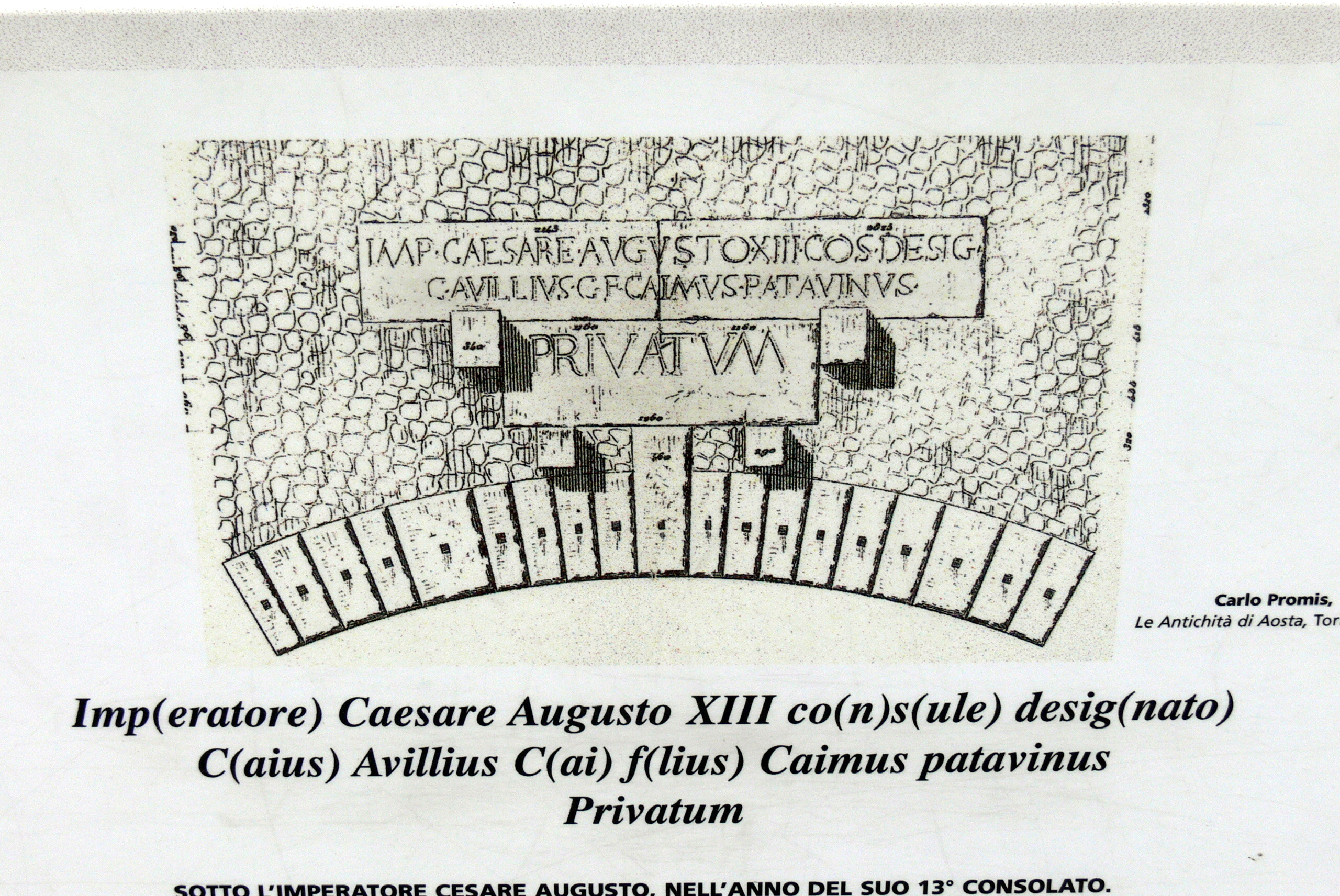 Pondel ( Aosta Valley ). Roman aquaeduct of Pont d'Aël ( 3 BC ): Foundation inscription ( CIL 5, 6899 ) - reconstruction.